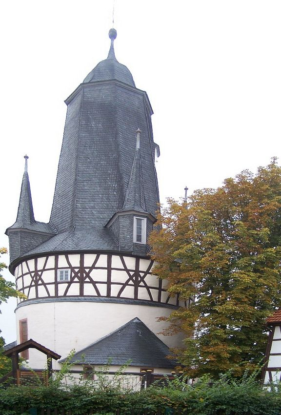 The church in Untersuhl.